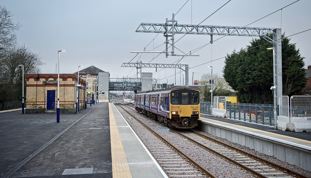 kirkham and weham train station post upgrades